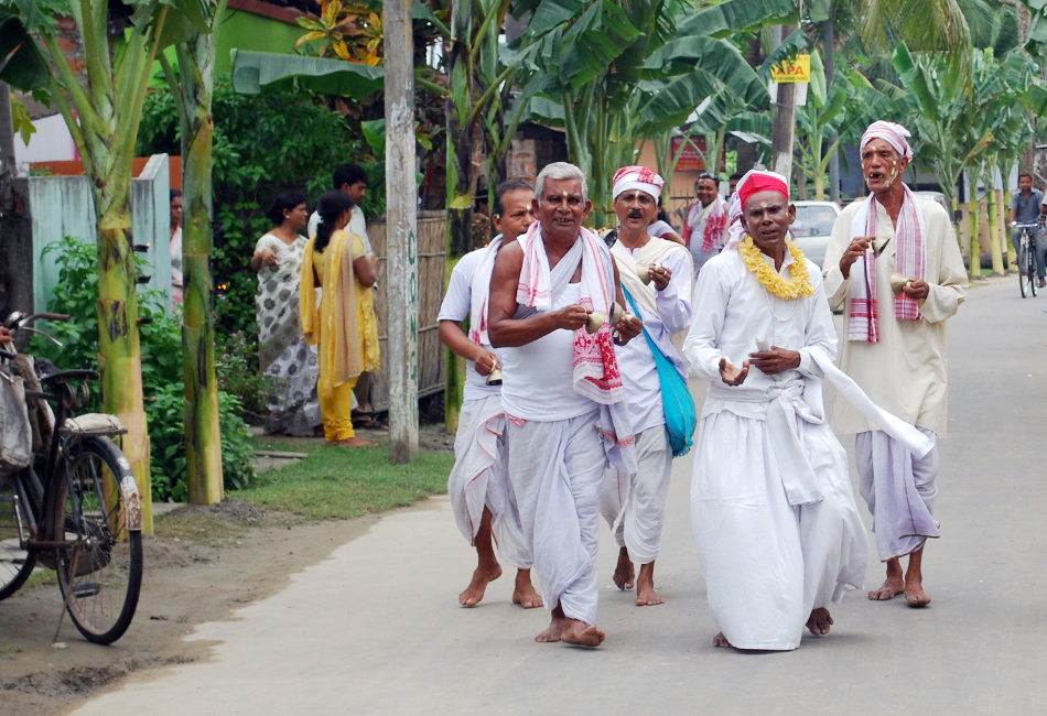 Ojapali is performed in a group. অসমীয়া: ওজাপালি